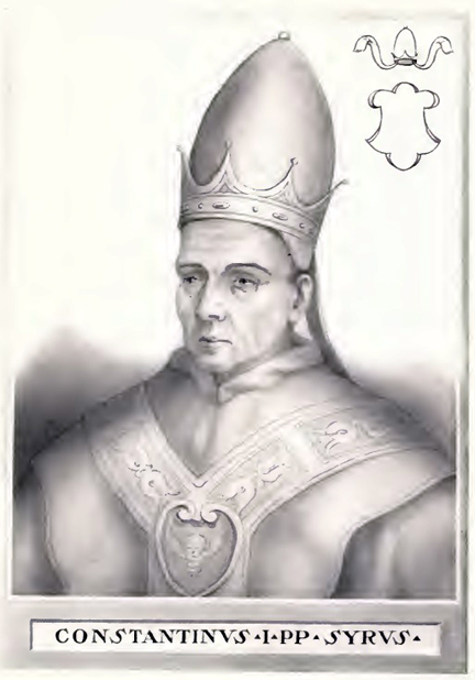 This illustration is from The Lives and Times of the Popes by Chevalier Artaud de Montor, New York: The Catholic Publication Society of America, 1911. It was originally published in 1842.